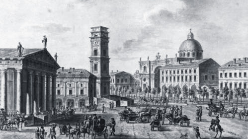 Saint Petersburg (Russia), Nevsky Prospekt. Perspective of Nevsky Prospekt near the Gostiny Dvor and the City Duma